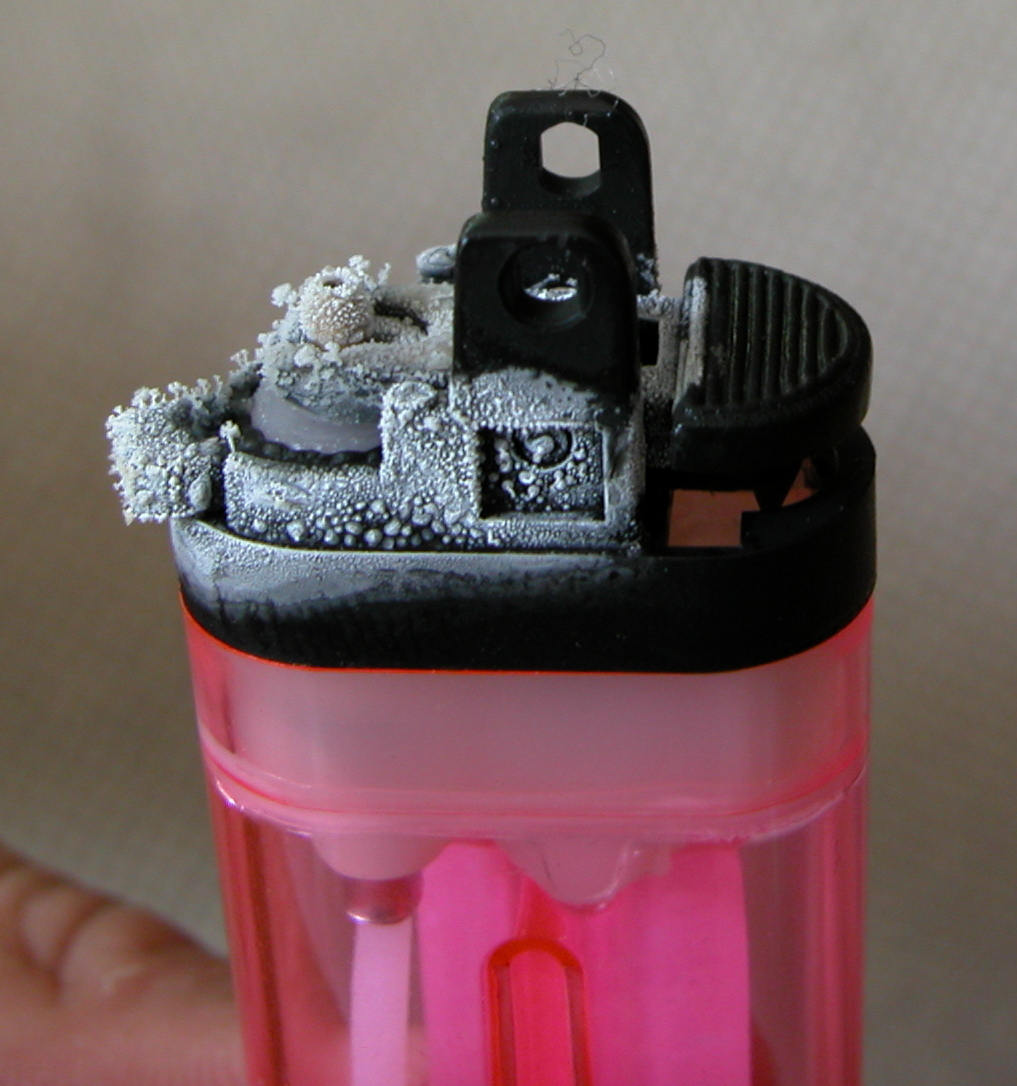 Frost formed on a compromised butane lighter from the phase transition of the butane escaping under pressure.